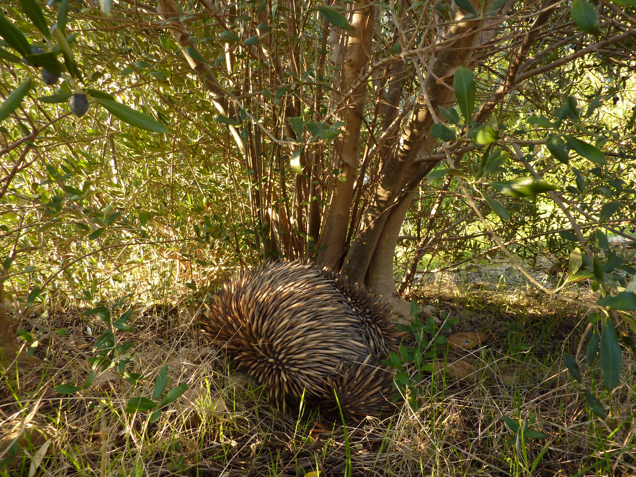 Onkaparinga River National Park, within a few km from the Old Noarlunga entrance. A echidna walking among olive trees, or hiding under one of them.